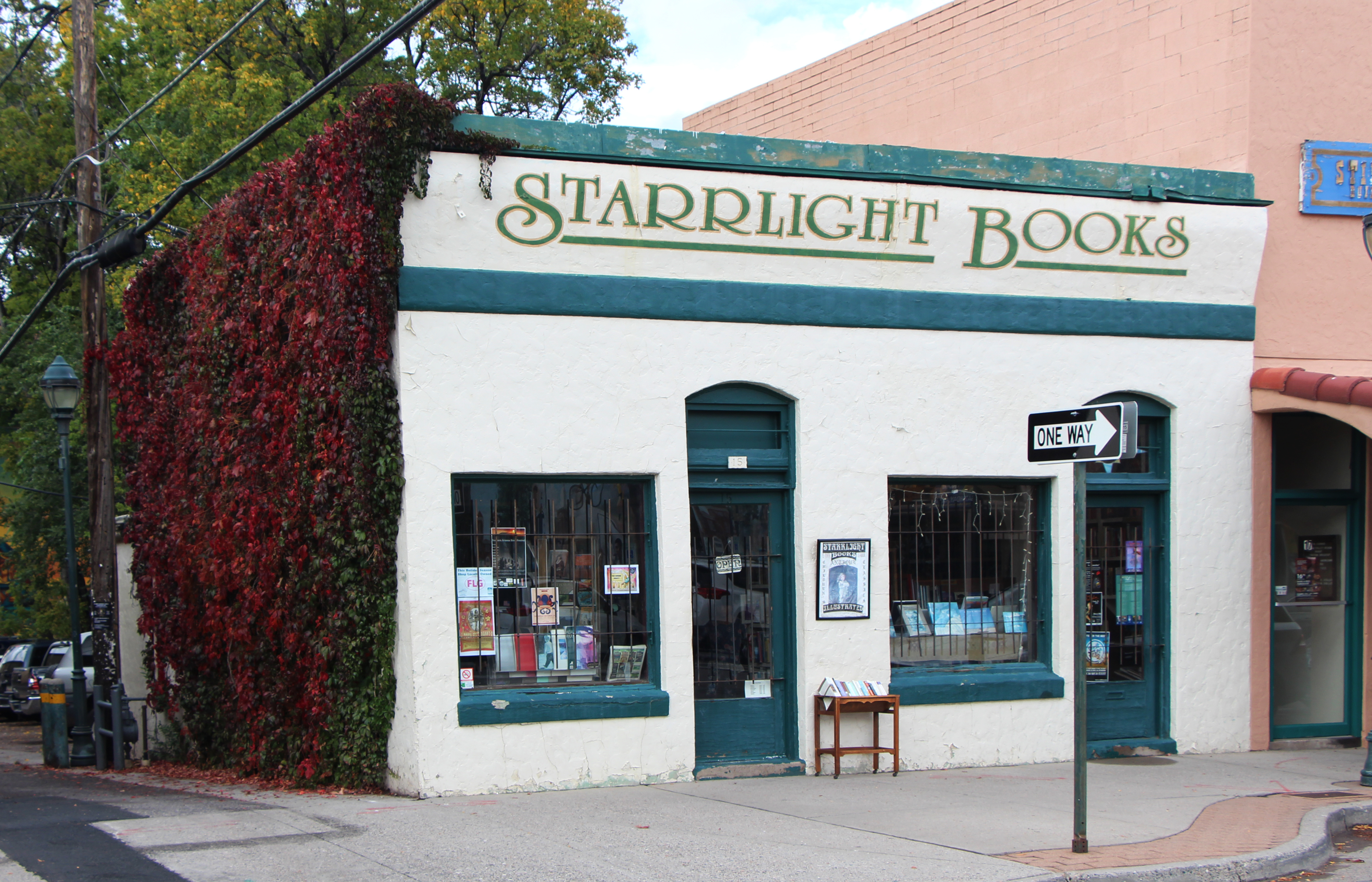 Loy Building, 15 N Leroux St, Flagstaff, AZ